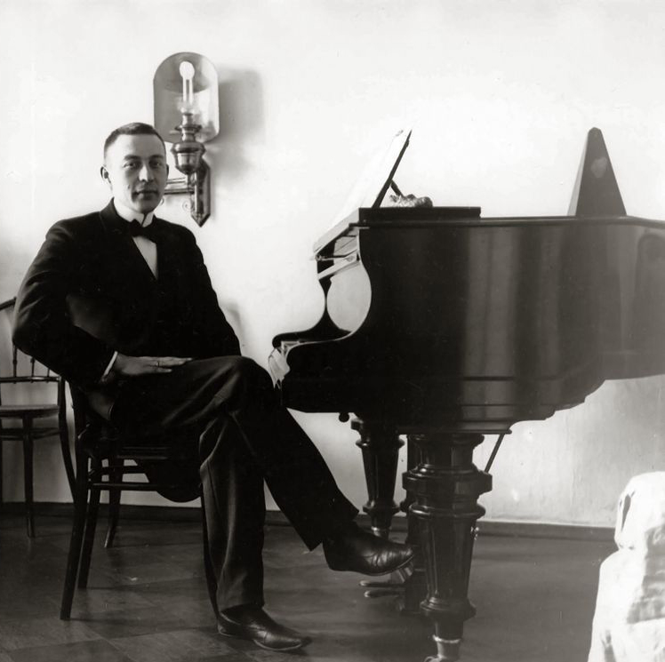 Sergei Rachmaninoff, in 1910s, aged ~30